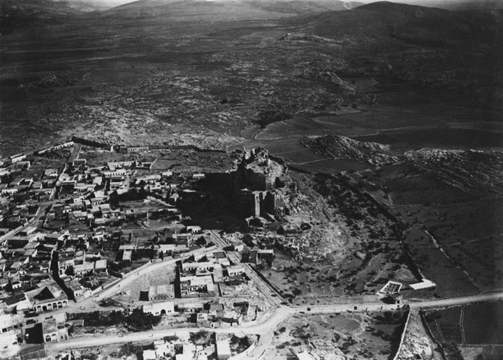 Masyaf Castle, Syria in the 1930s, by Pierre Antoine Berrurier.